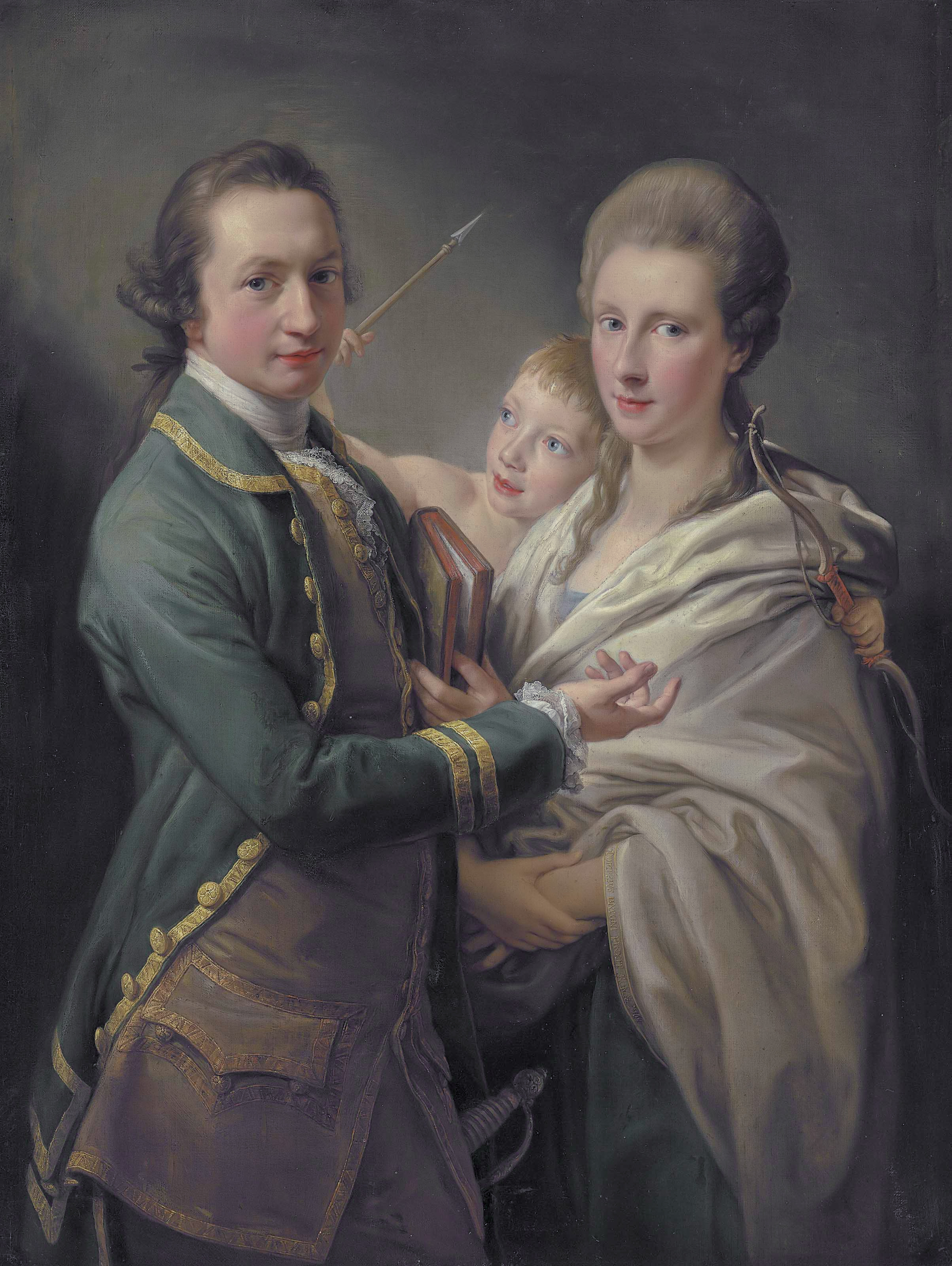 Arthur Saunders Gore, Viscount Sudley, later 2nd Earl of Arran (1734-1809), and his wife Catherine, née Annesley (1739-1770), with their son (?), Arthur Saunders Gore, later 3rd Earl of Arran (1761-1837), as Cupid oil on canvas 113.8 x 86.3 cm signed b.r.: POMPEIVUS BATONI PINXIT ROMÆ 1769